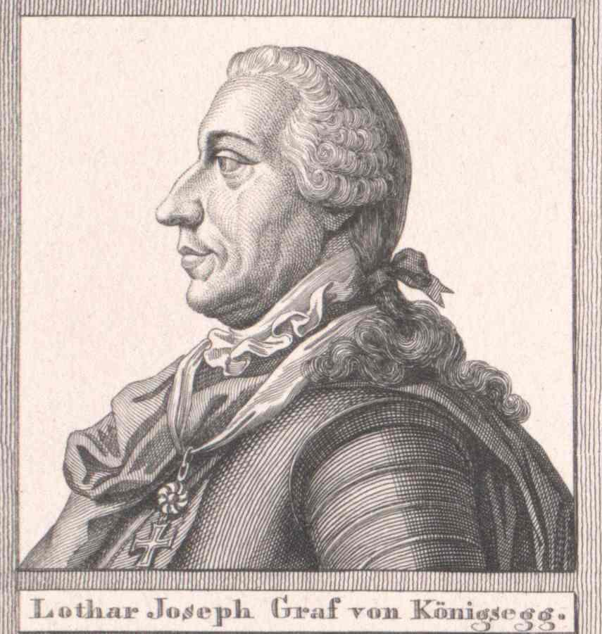 Lothar Josef Graf Königsegg und Rothenfels, kaiserlicher Feldmarschall Authority control VIAF: 81301171 GND: 137058179